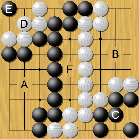 A simplified game, finishing up.